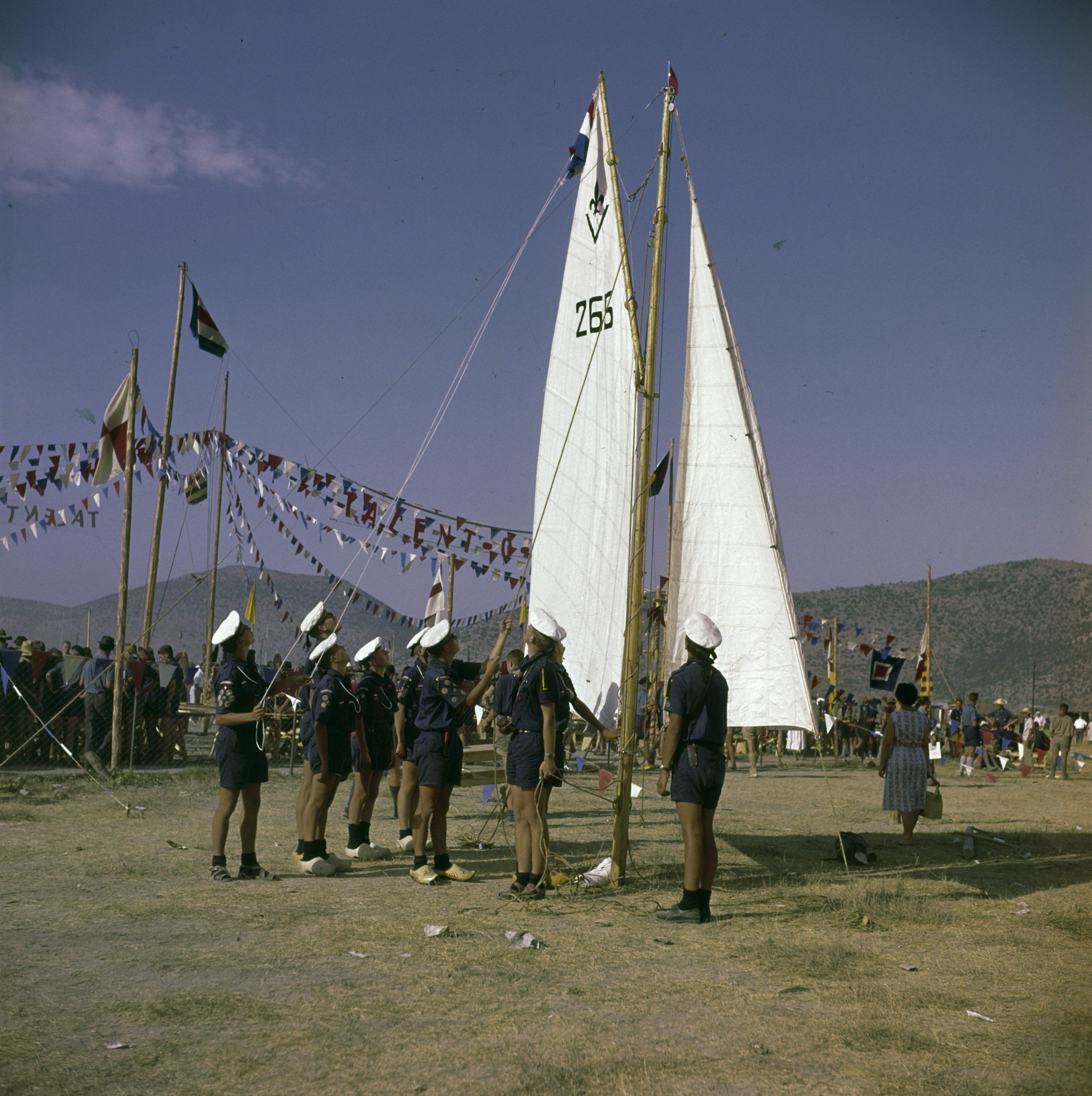 Serie Jamboree in Griekenland; Nederlandse zeeverkenners hijsen zeilen bij demonstratie voor Talentorama. Aug. 1963